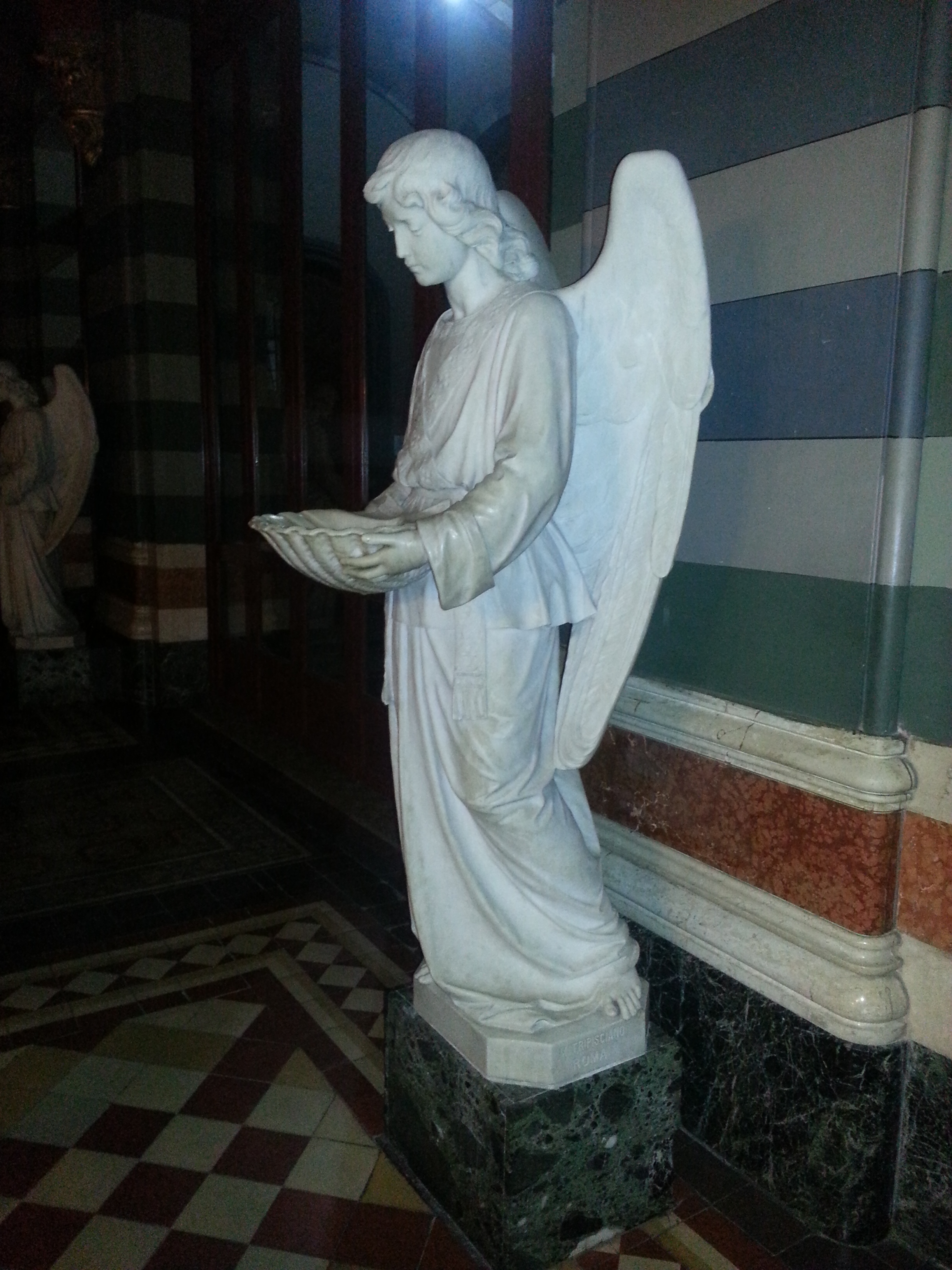 Sculpture of an angel holding a holy water font or stoup. Basílica María Auxiliadora y San Carlos, Buenos Aires, Argentina.